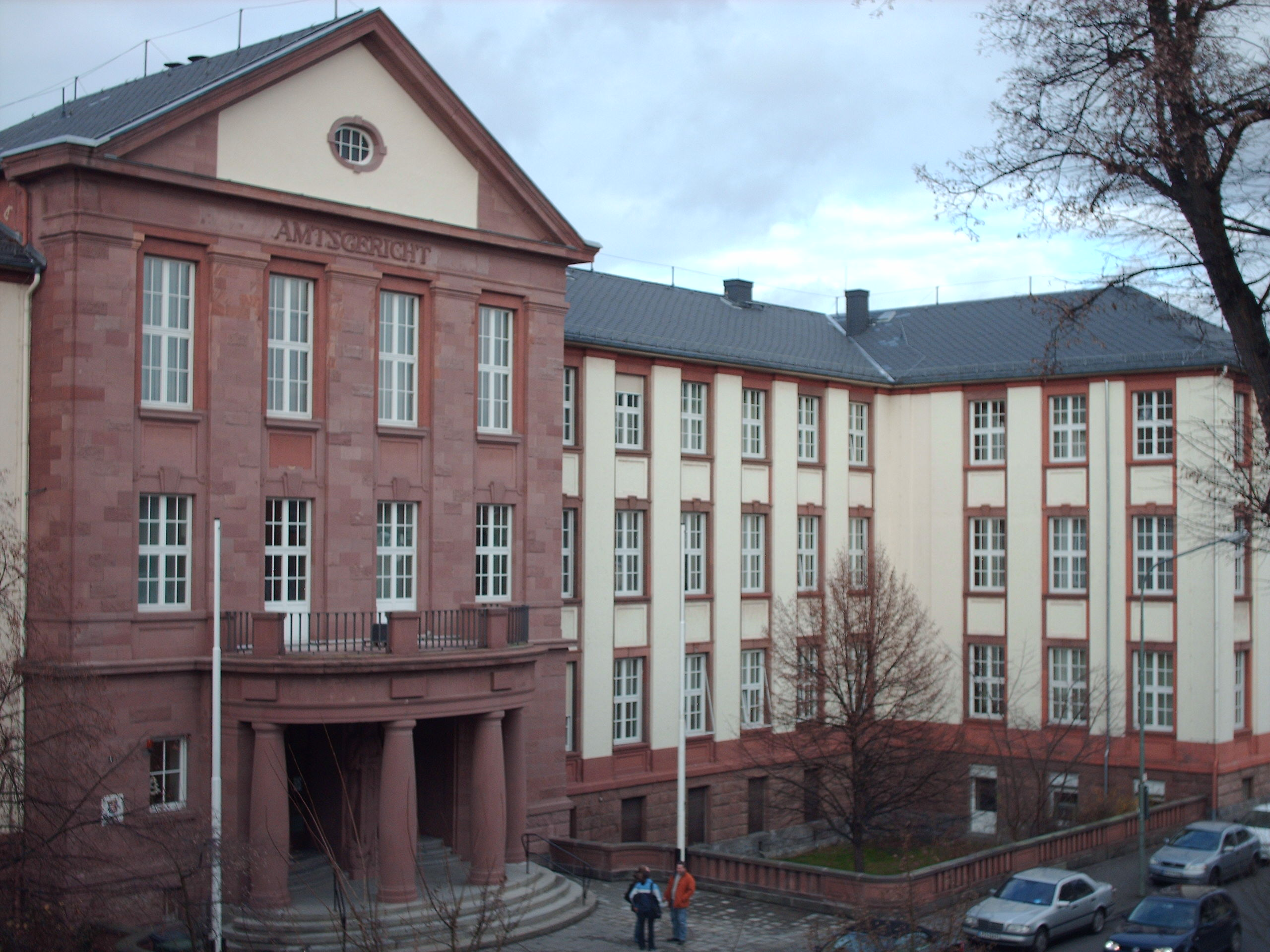 Courthouse Amtsgericht Gießen, Gießen, Germany check usage Address Amtsgericht Gutfleischstraße 1 35390 Gießen Germany Date27 November 2007SourceOwn work. (→ weitere 1,420 Bilder von mir in der Galerie)AuthorStefan FlöperPermission (Reusing this file) cc-by-sa-3.0, gfdl 1.2+ Attribution (required by the license)Stefan Flöper / Wikimedia Commons / CC-BY-SA-3.0 & GDFL 1.2+ Licensing[edit]